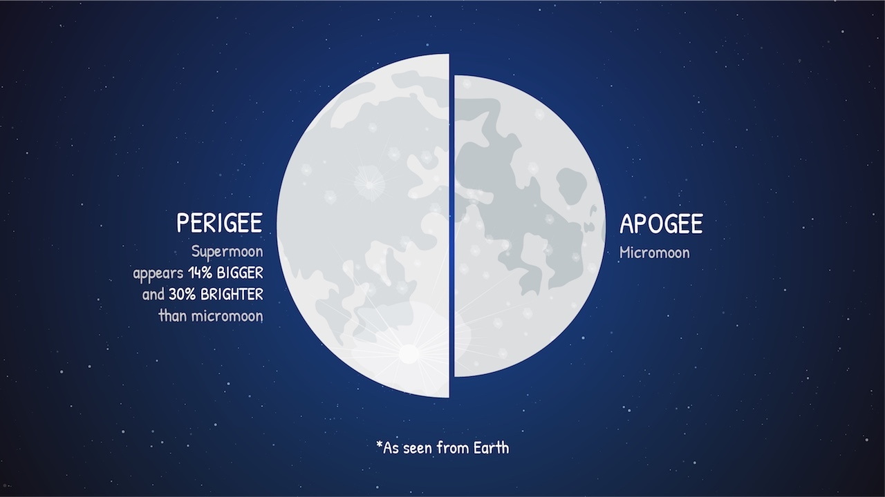 It's nearly impossible to compare the apparent size of the supermoon with a micromoon from memory, but when seen side-by-side as in this graphic, it becomes clear.